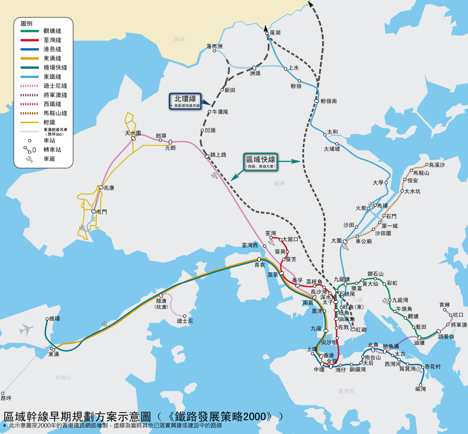 The map shows the early planning route of "Regional Express Line" in Hong Kong (2000). Derived from File:Hong Kong Railway Route Map.svg